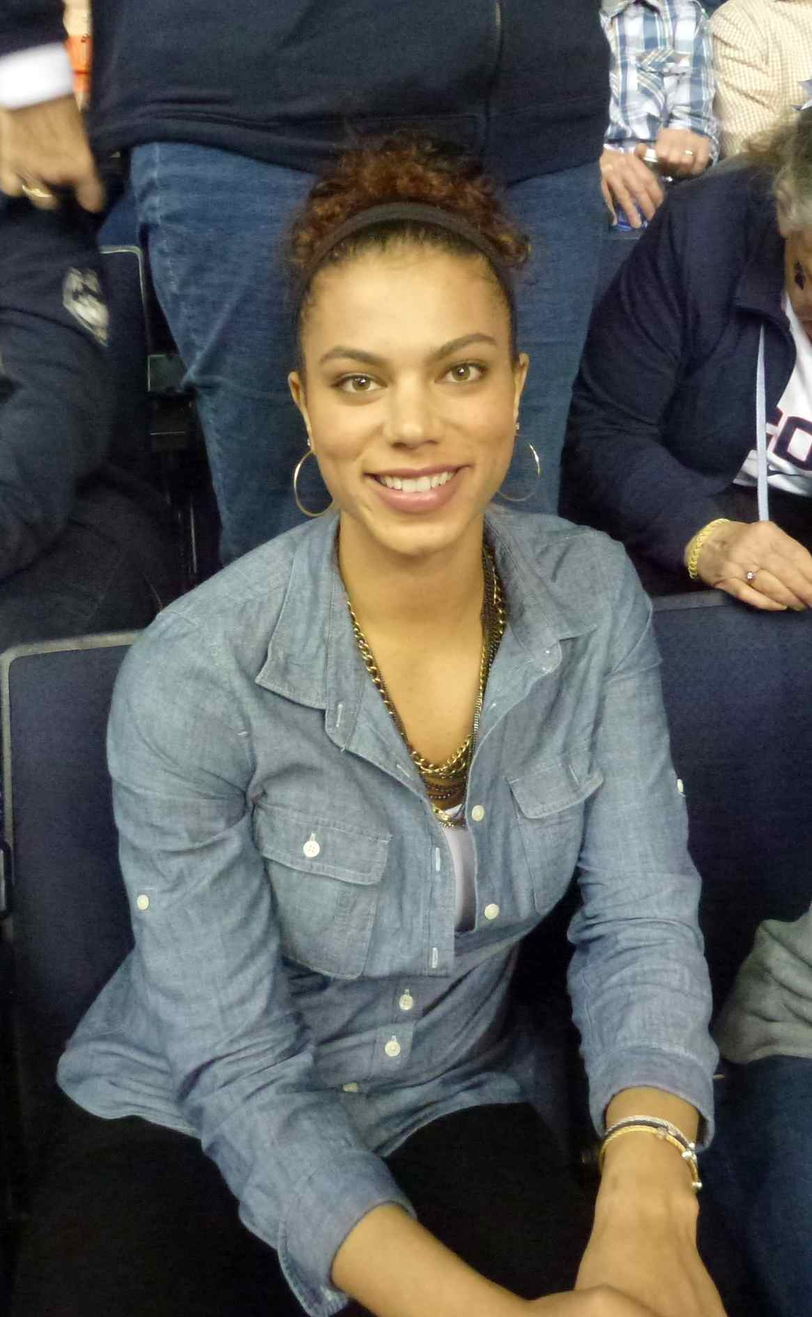 Alysha Clark professional basketball player for the Seattle Storm. Taken at the 2014 Final Four in Nashville Tennessee